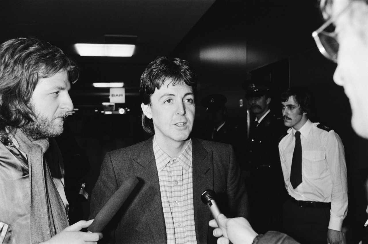 Paul McCartney arrives at Amsterdam Schiphol Airport in 1980.